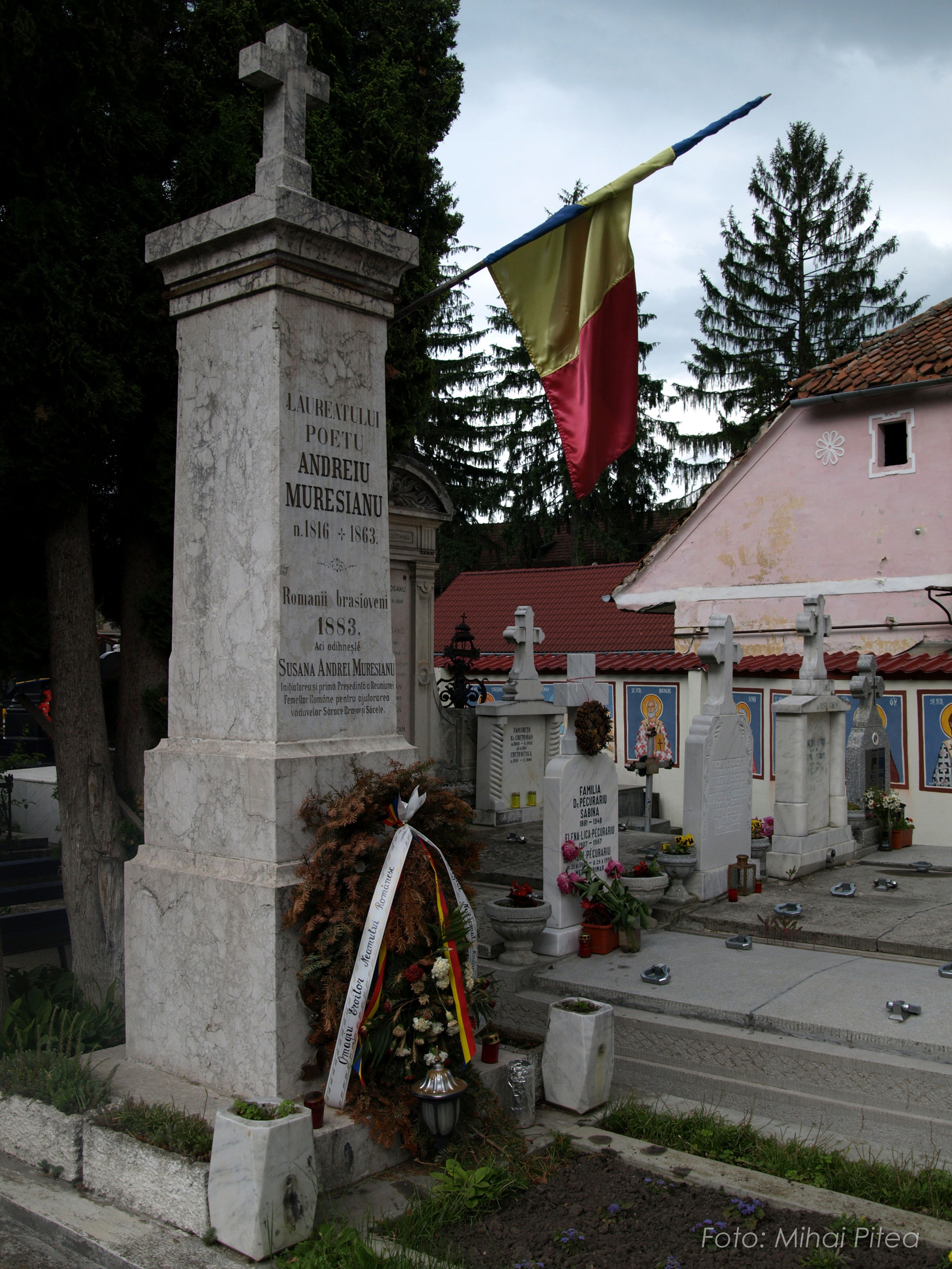 The grave of Romanian poet and patriot Andrei Mureșanu.